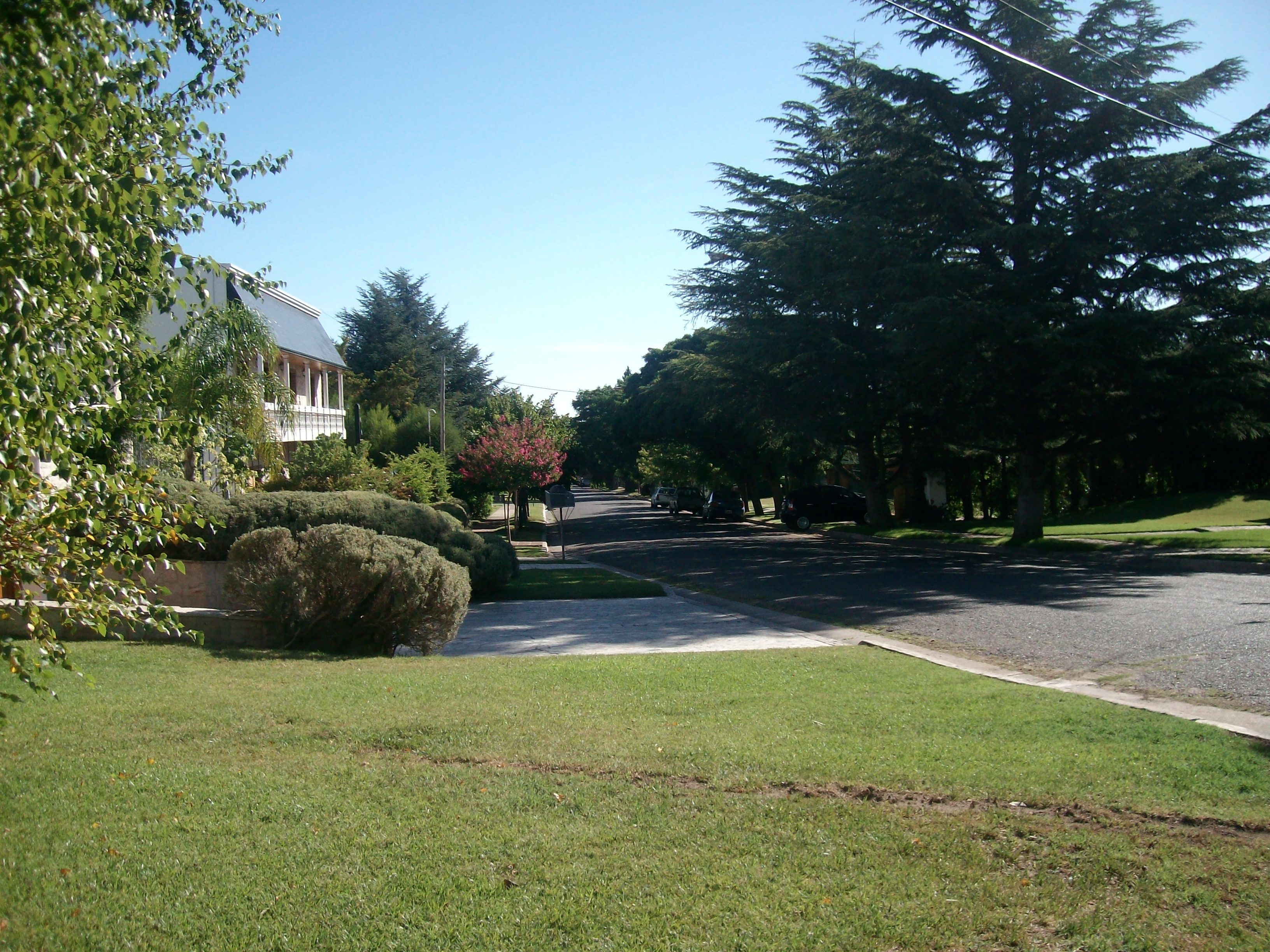 Calle ciudad